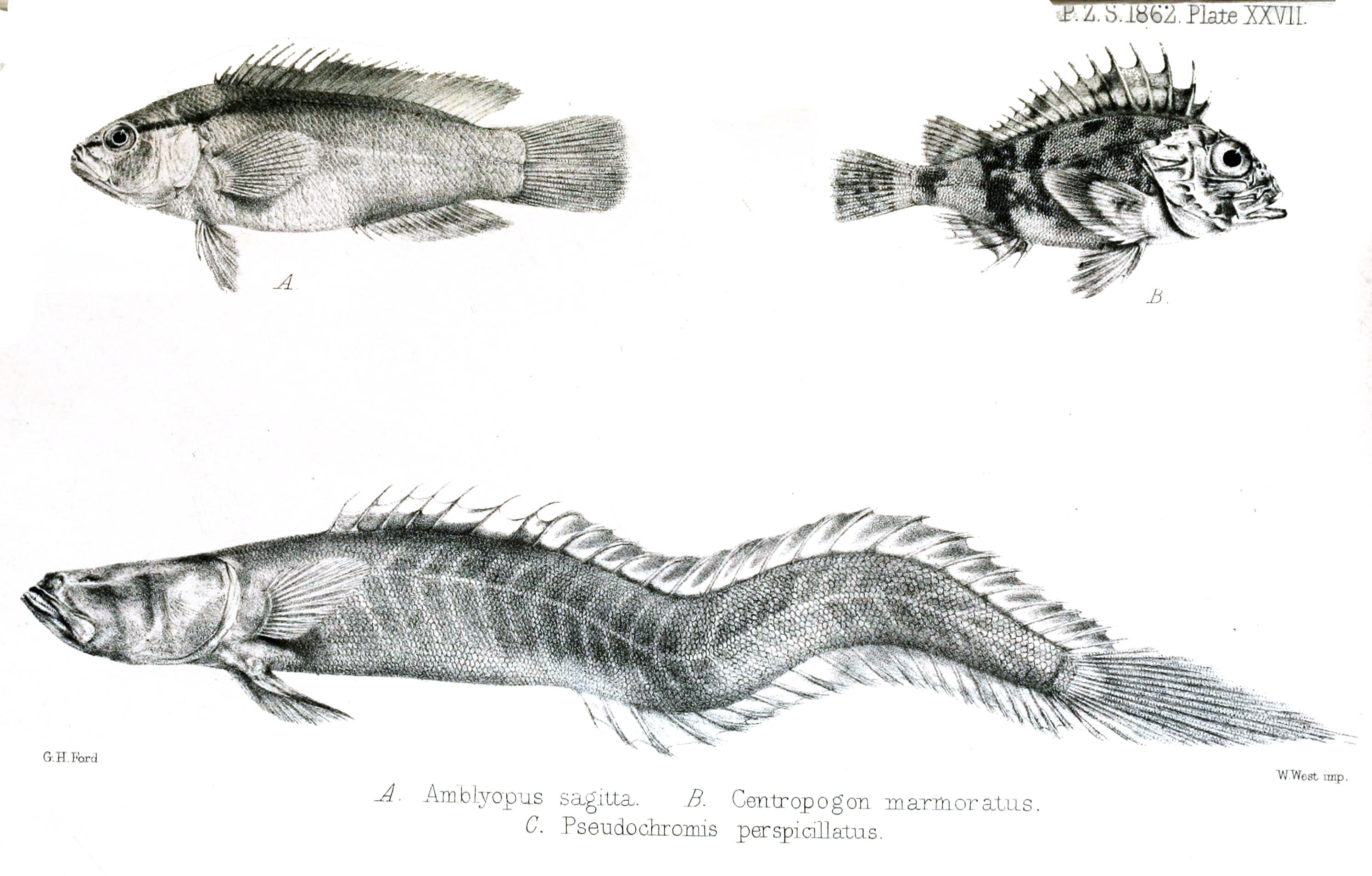 Southeast Asian Blackstripe Dottyback (top left); Marbled Fortescue (top right)